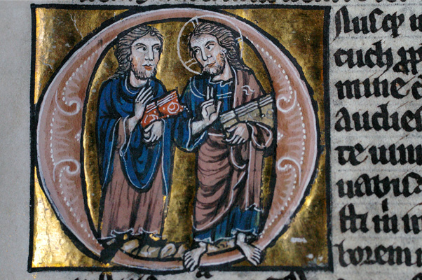 Habakkuk and God, miniature from the Bible of the Monastery of Santa Maria de Alcobaça, c. 1220s (National Library of Portugal ALC.455, fl.301).